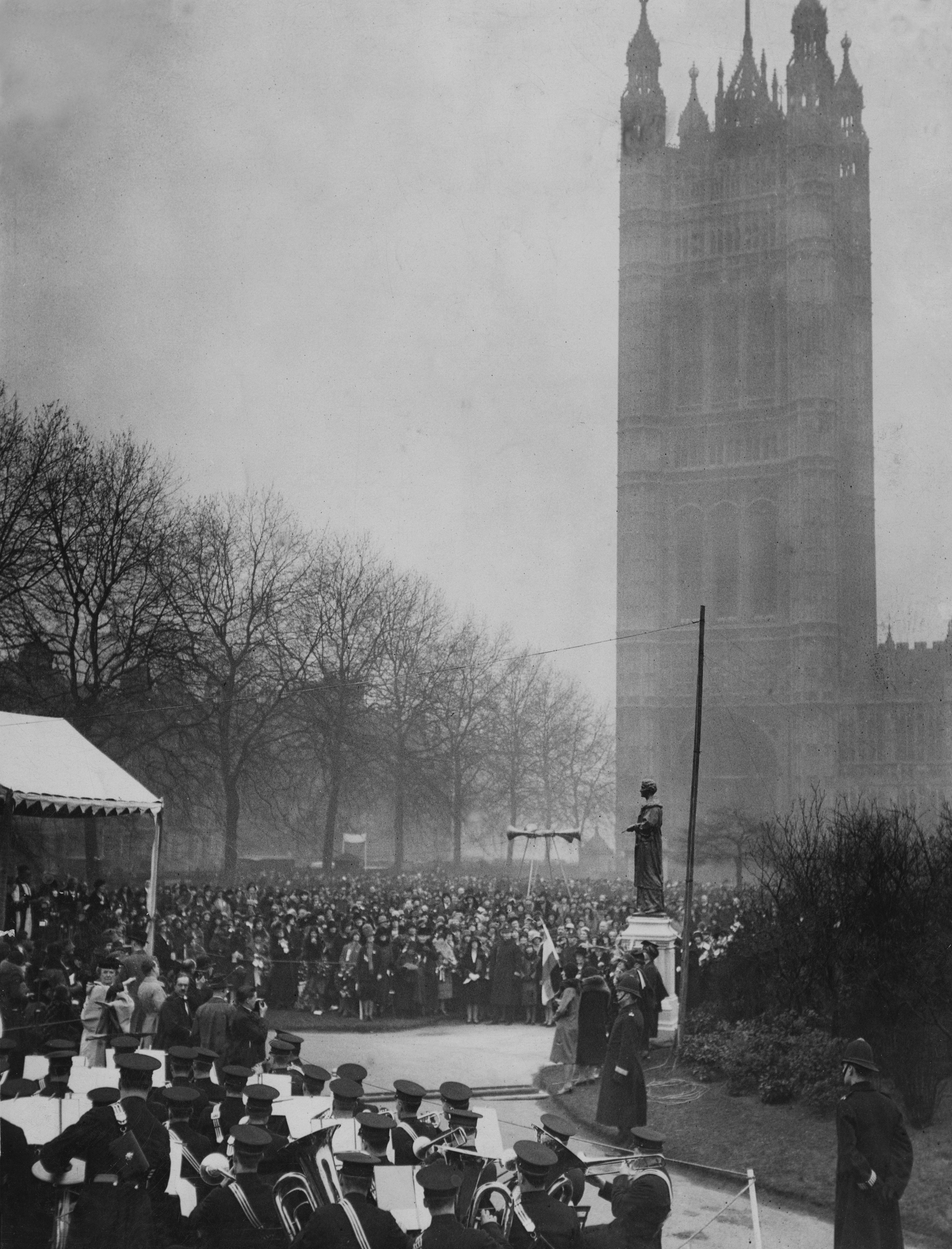 7JCC/O/02/156 Photograph, printed, paper, monochrome, general view of the scene at Victoria Tower Gardens on 6 May 1930, when the memorial to Emmeline Pankhurst was unveiled; manuscript inscription on reverse 'With great care. EK Marshall, 15 Gayfere St', printed 'Copyright Keystone View Company, 12 Wine Office Court, Fleet Street, London EC4'